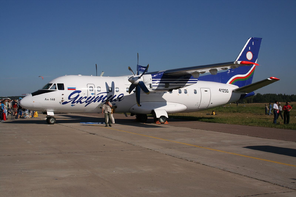 Antonov An-140 in Yakutia livery at MAKS Airshow.